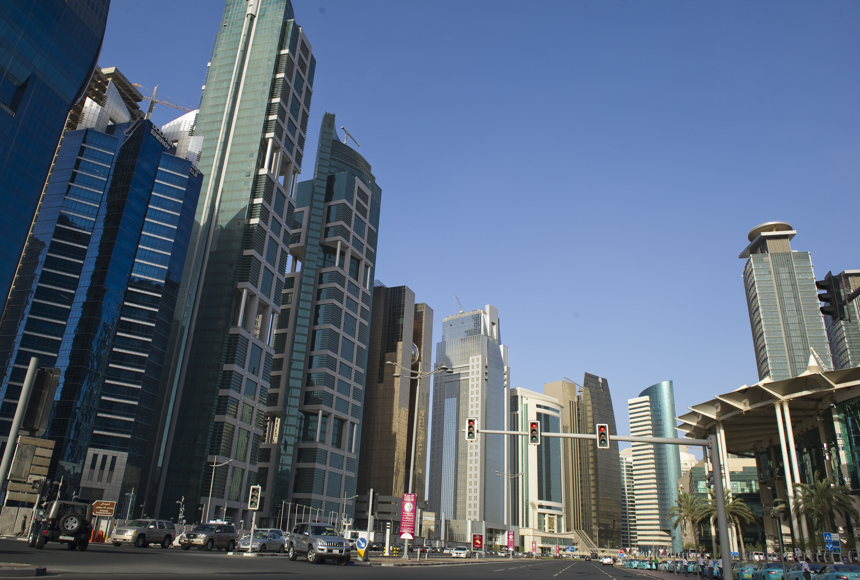 Doha City, UNCTAD XIII